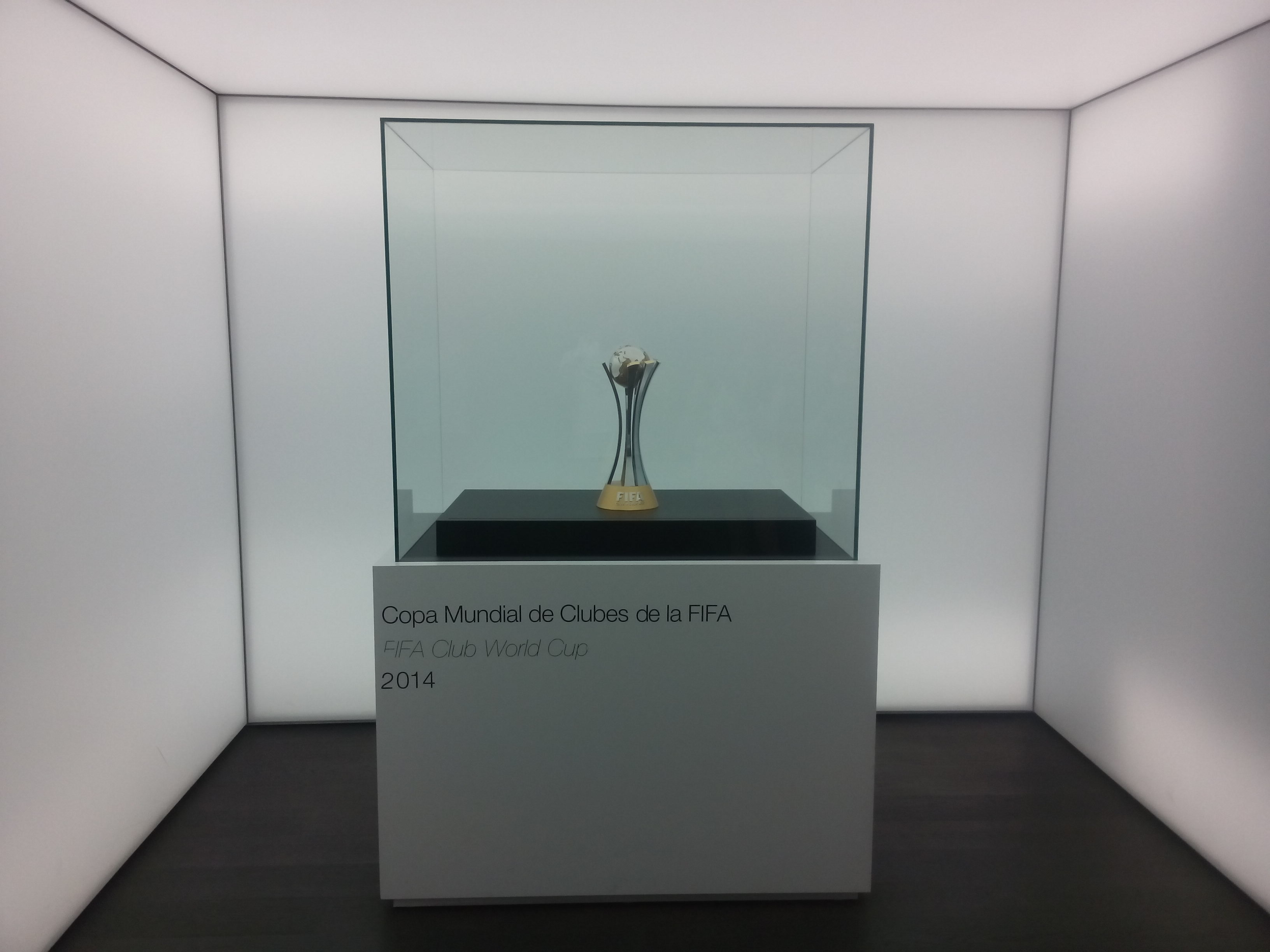 FIFA Club World Cup Trophy 2014 of Real Madrid